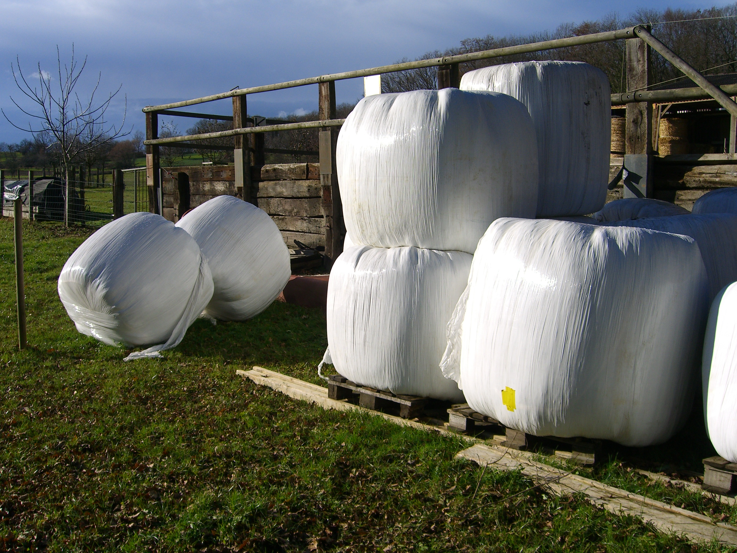 Silage (hay) bales somewhere in Allschwil or Schönenbuch, near Basel, Switzerland.